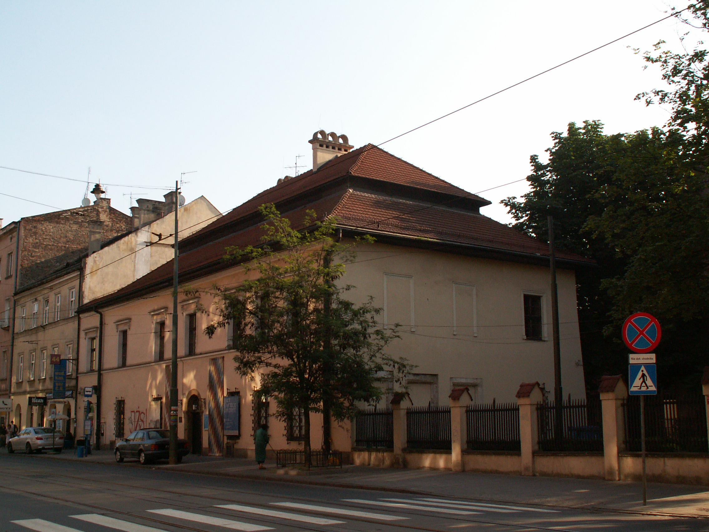 Esterka House-Ethnographic Museum, 46 Krakowska street, Kazimierz, Kraków, Poland